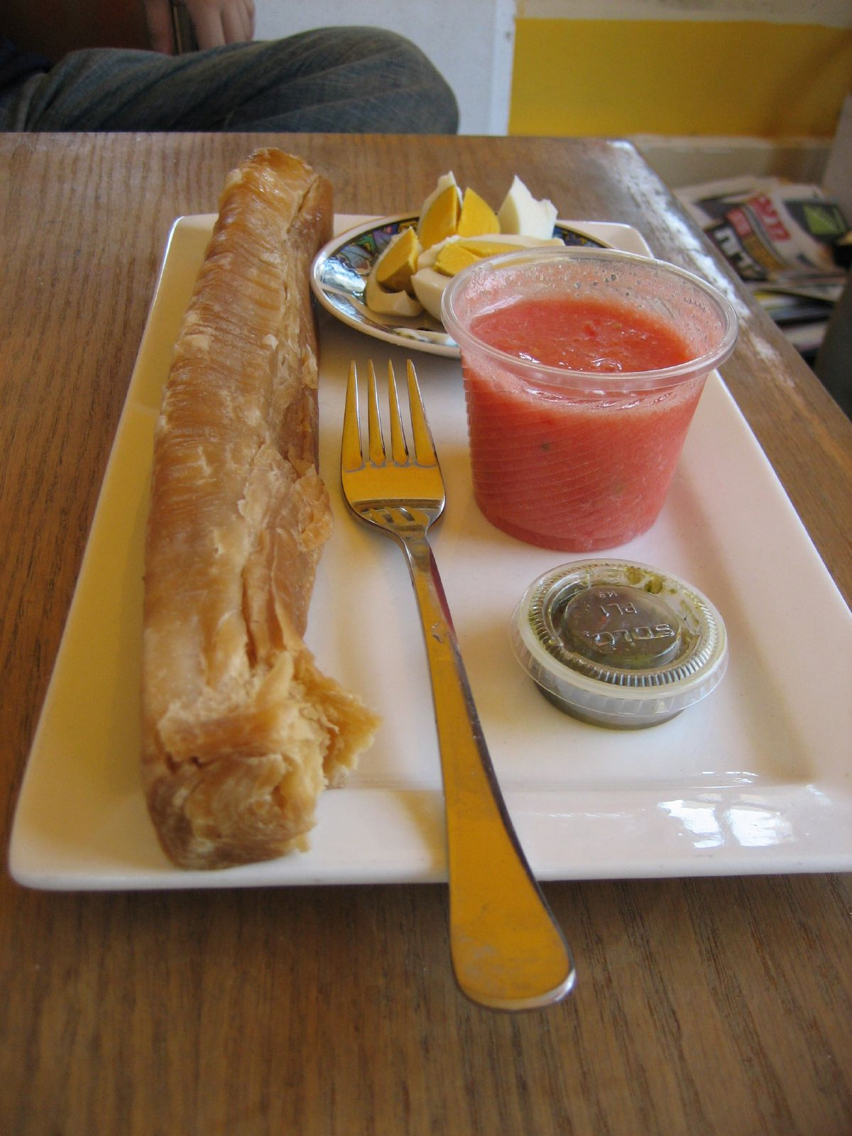 Plate of Jachnun, a Yemenite Jewish Sabbath bread